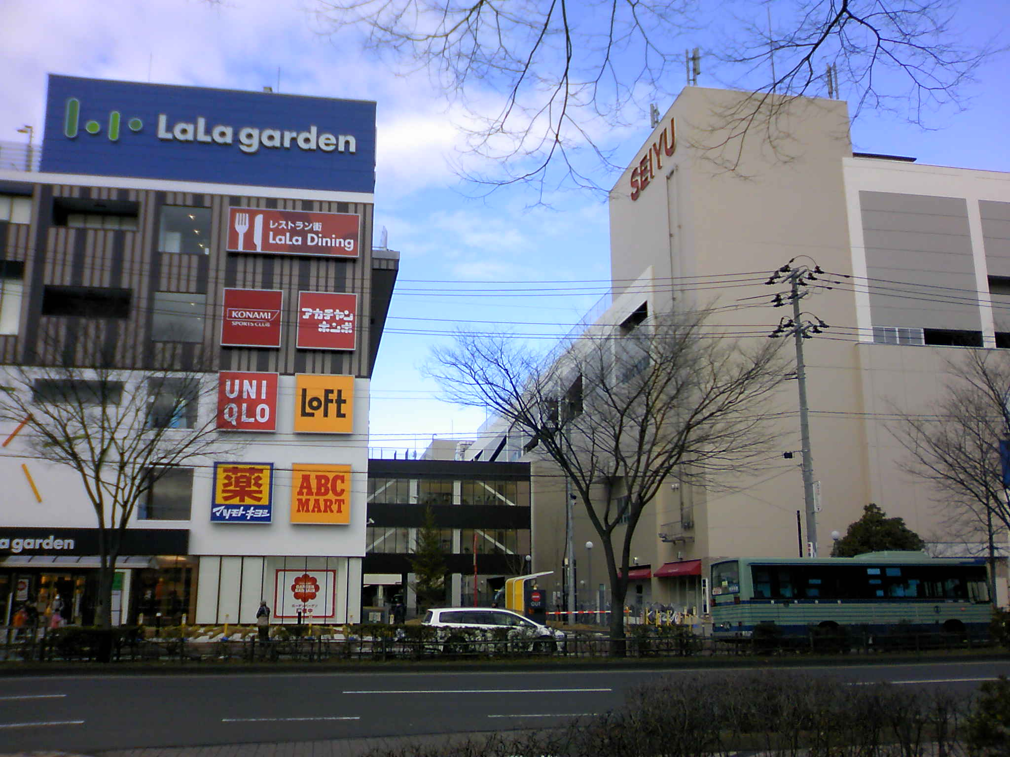 Lala Garden Nagamachi (L) and The Mall Sendai Nagamachi (R)